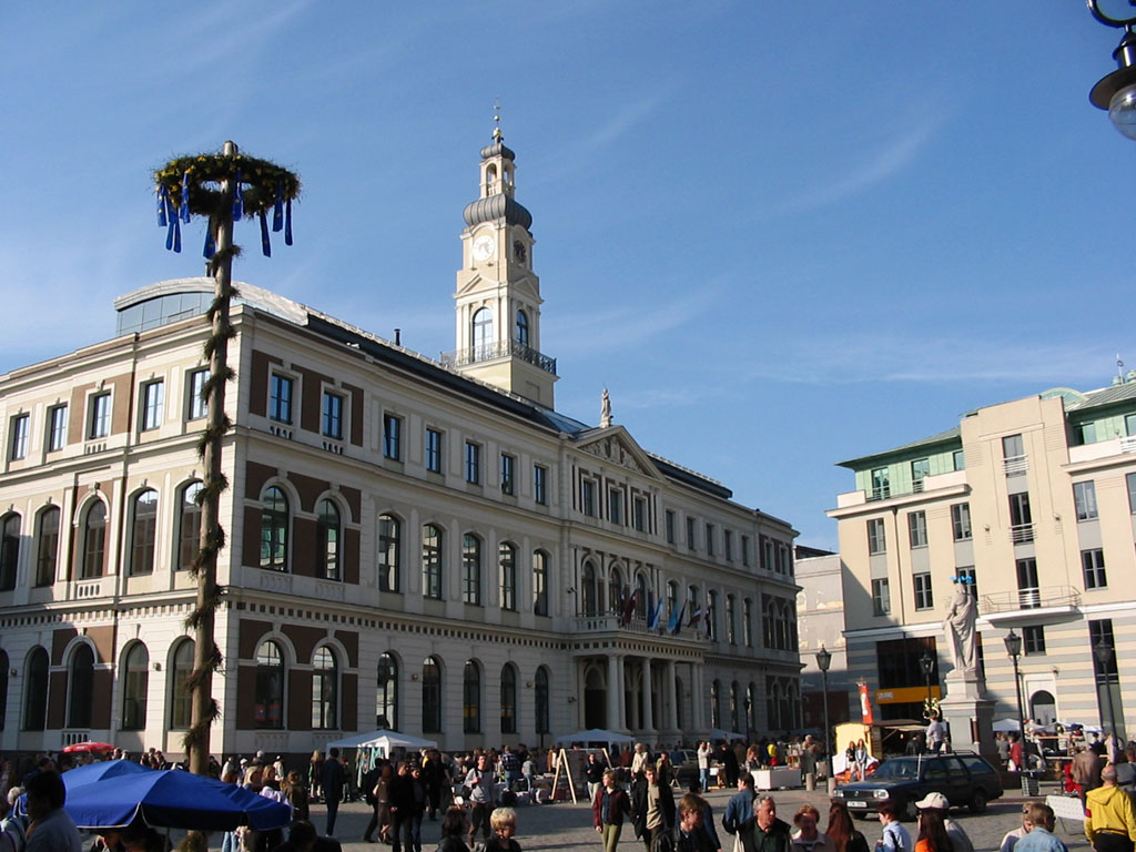 Riga City Council